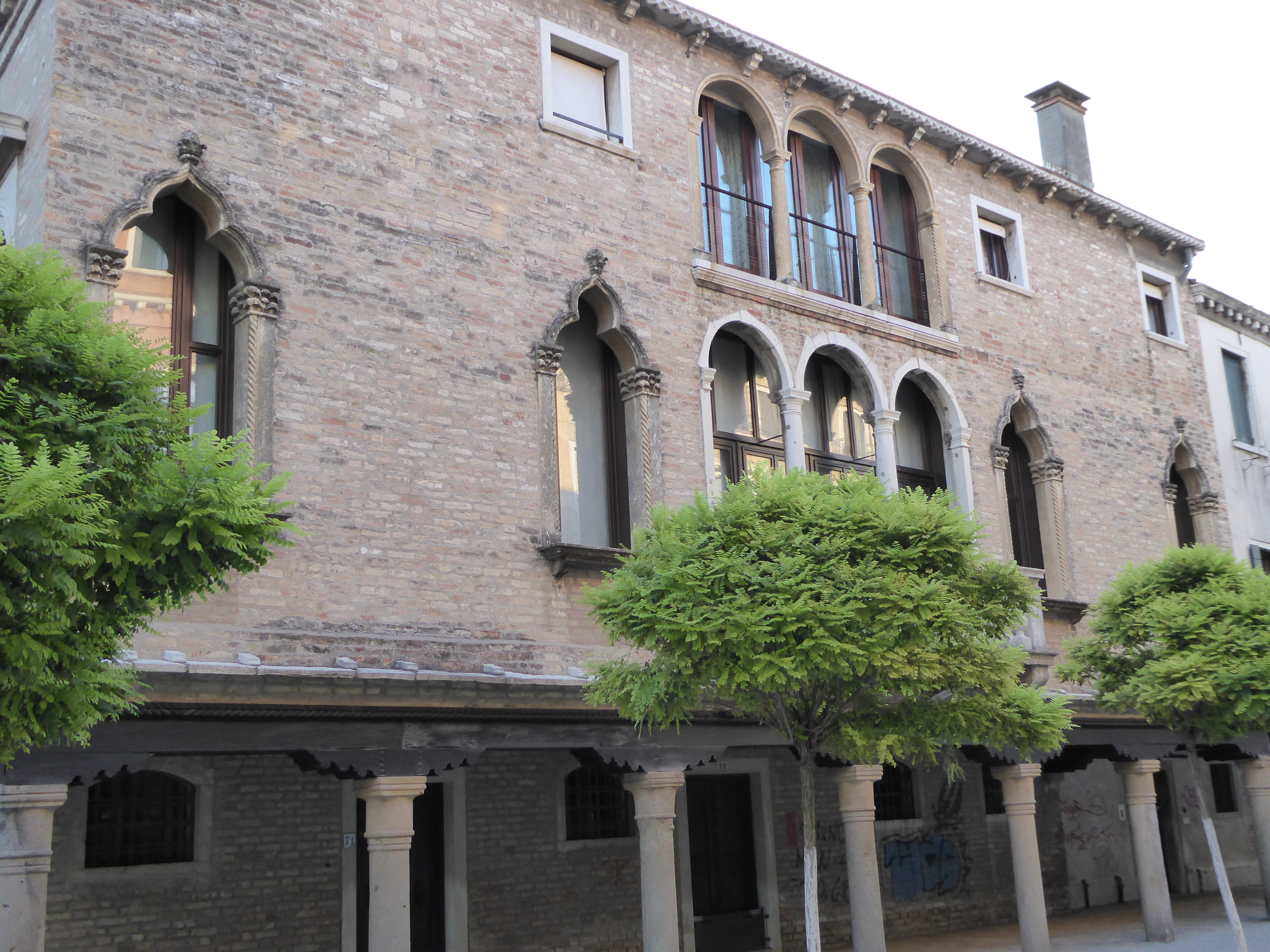 Palazzetto Costantini